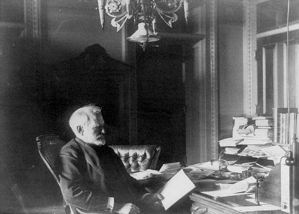 Benjamin Franklin Tracy, Secretary of the Navy, half-length portrait, seated at desk, facing left, looking at paper